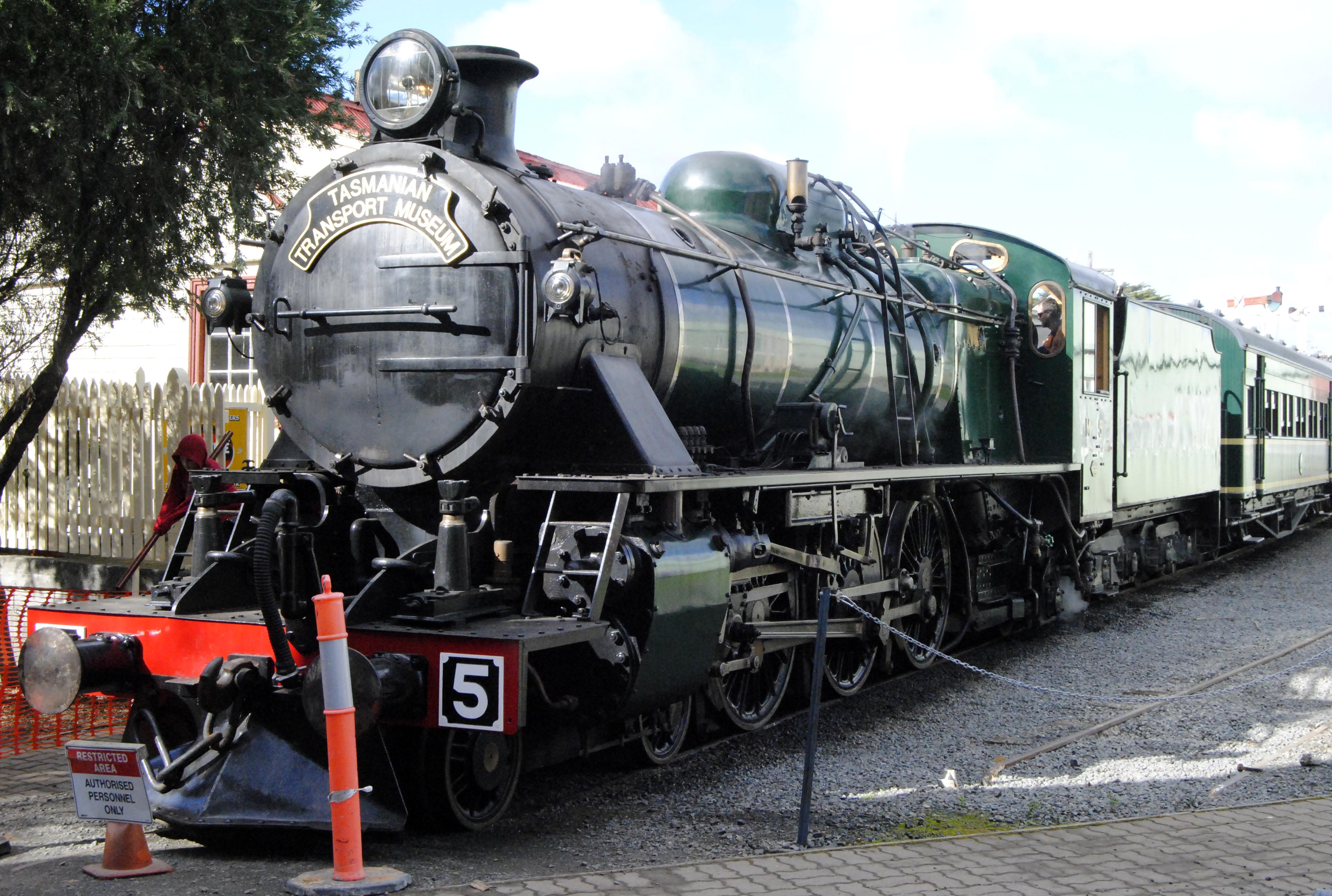 Tasmanian Government Railways M class locomotive M5 of 1952, preserved and in steam at the Tasmanian Transport Museum. Other information Taken with Nikon D3000 and cropped in Adobe PhotoShop CS6